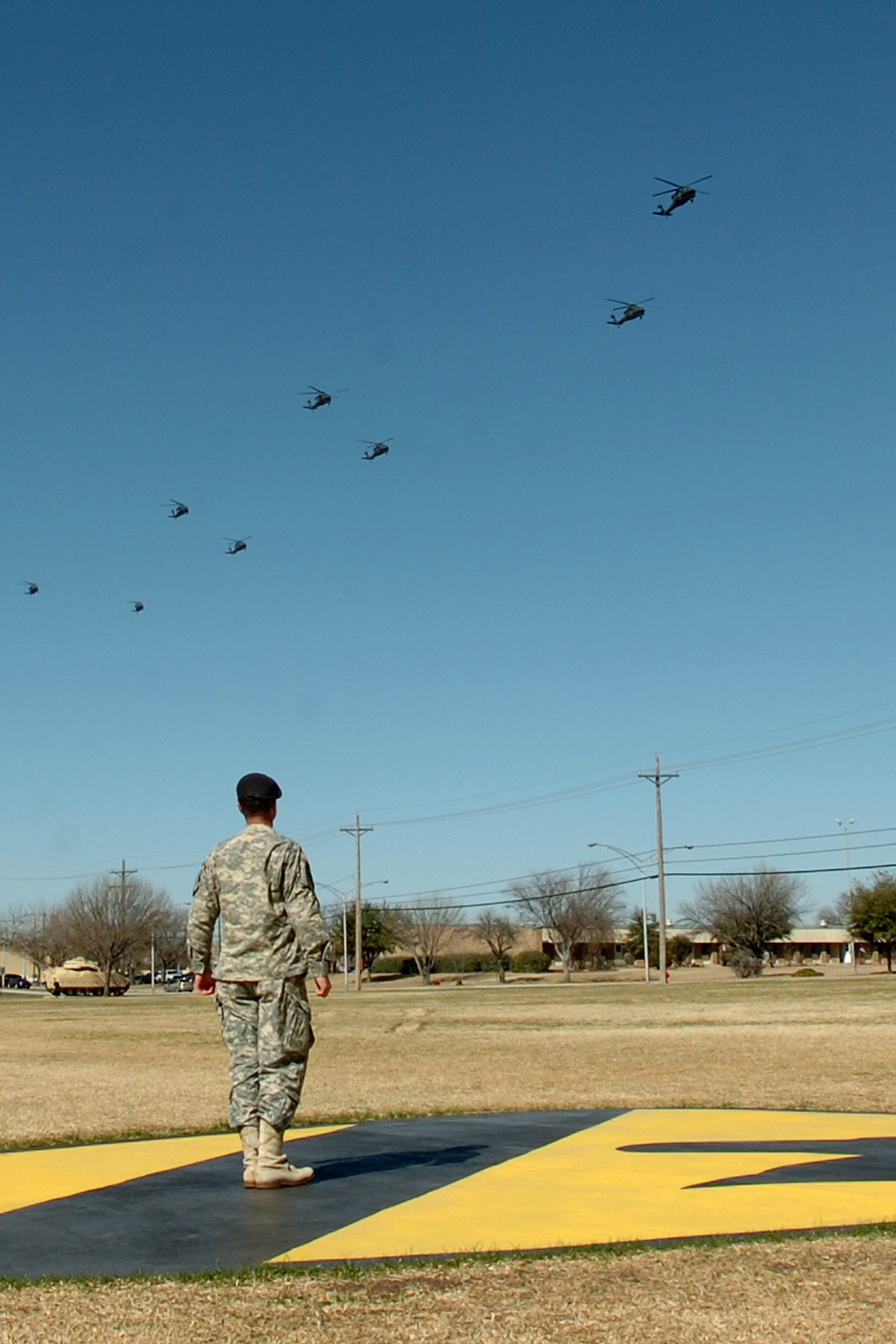 Lt. Col. Christopher Joslin, the commander of the 2nd Battalion, 227th Aviation Regiment, 1st Air Cavalry Brigade, 1st Cavalry Division, watches from Cooper Field as eight of his battalion's UH-60 Black Hawk helicopters fly over the division's parade field on their return flight to Fort Hood, Texas, Feb. 8. These helicopters recently returned to the United States via a cargo ship after completing their mission in Iraq. (original caption)